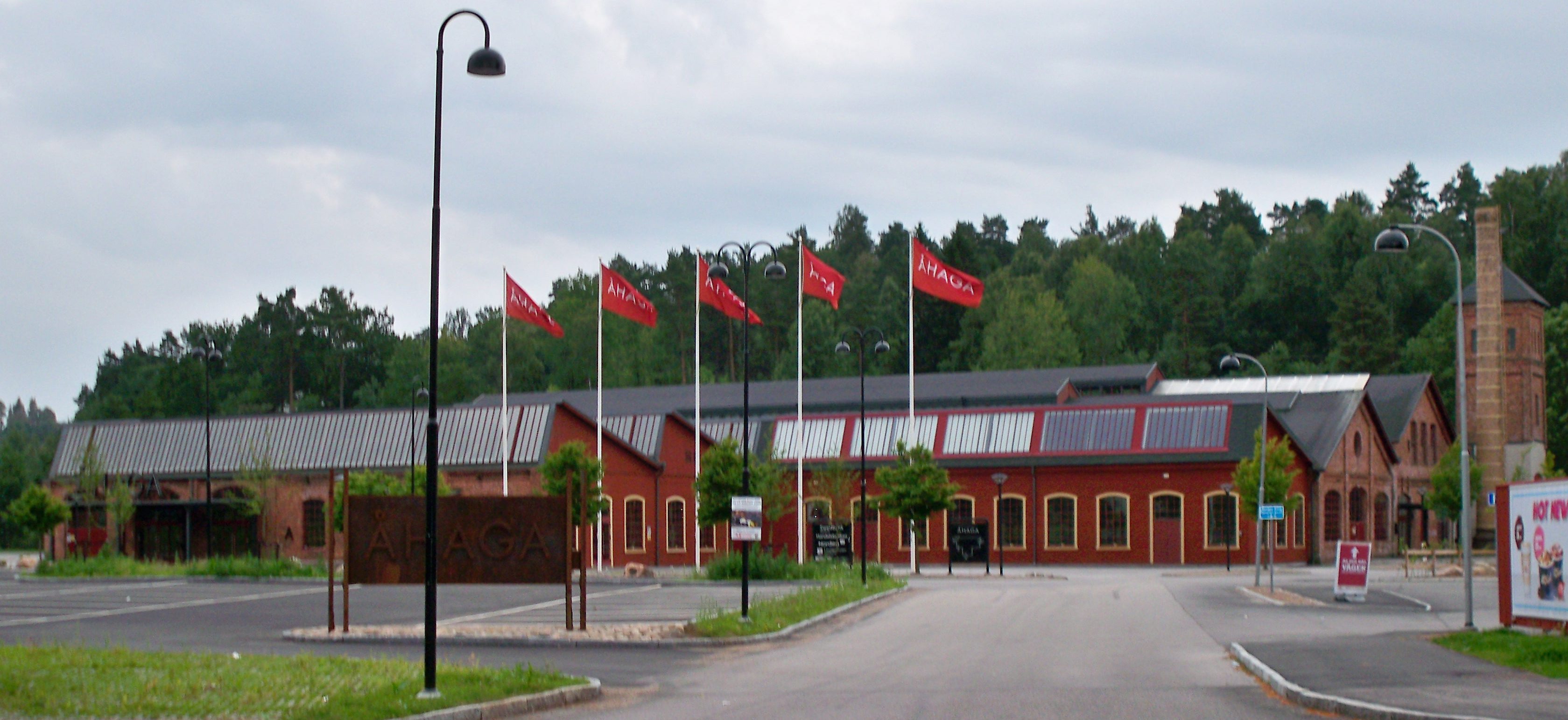 Currently a hall of conserts and exhibitions, this 1884 building in the city of Borås, Sweden, once was a workshop for mending of engines and railway-cars.